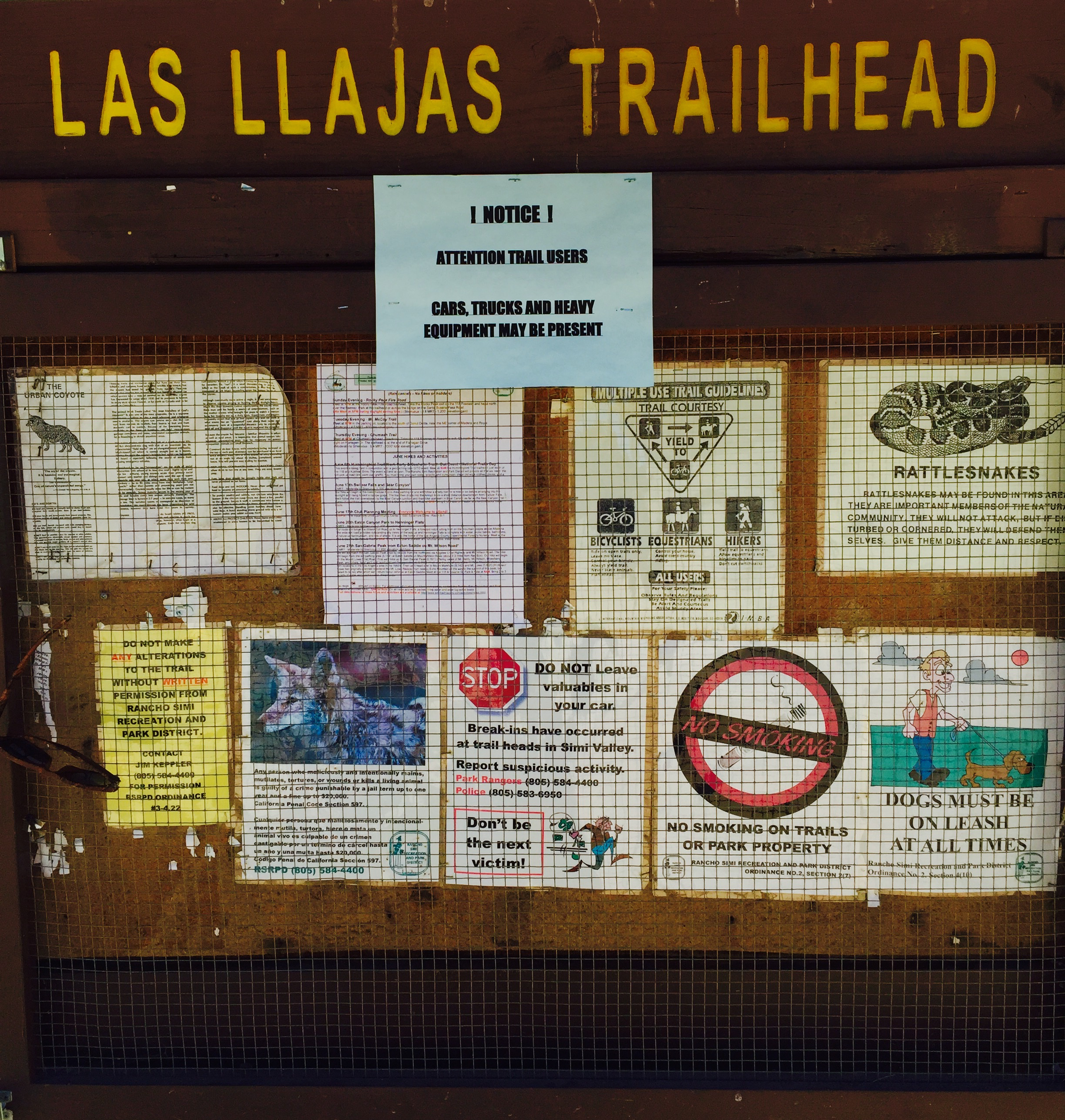 The sign at the Las Llajas Canyon main trail-entrance.